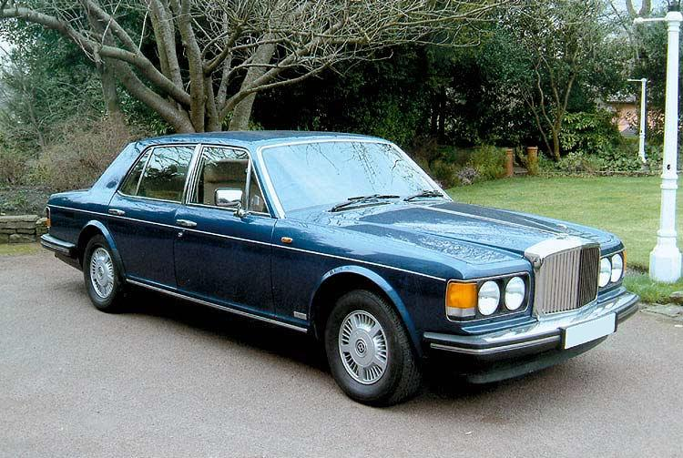 1985 Bentley Mulsanne. Photographed in Derbyshire, England.